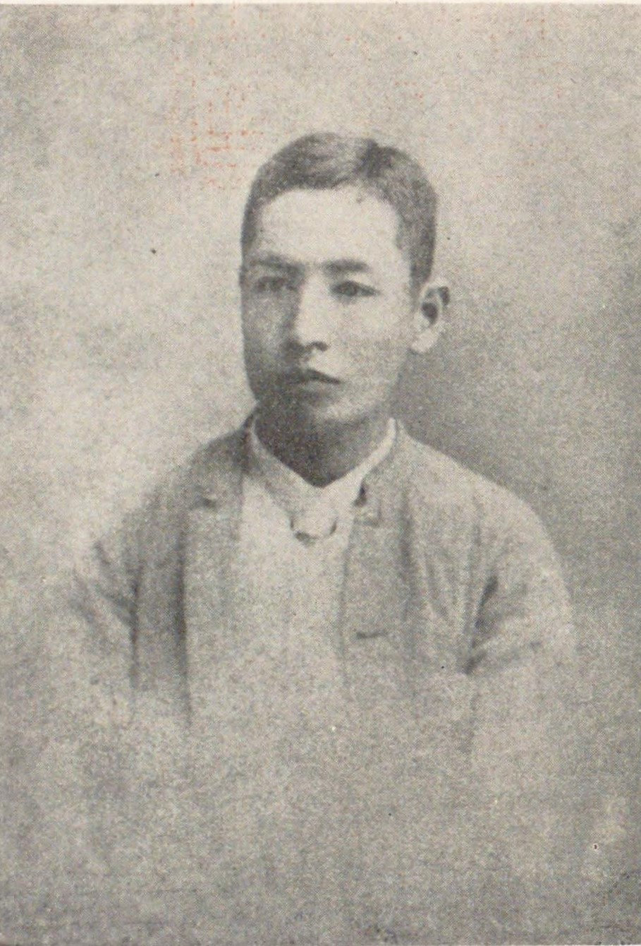 Natsume Soseki as a student of the Imperial University (June 1892).